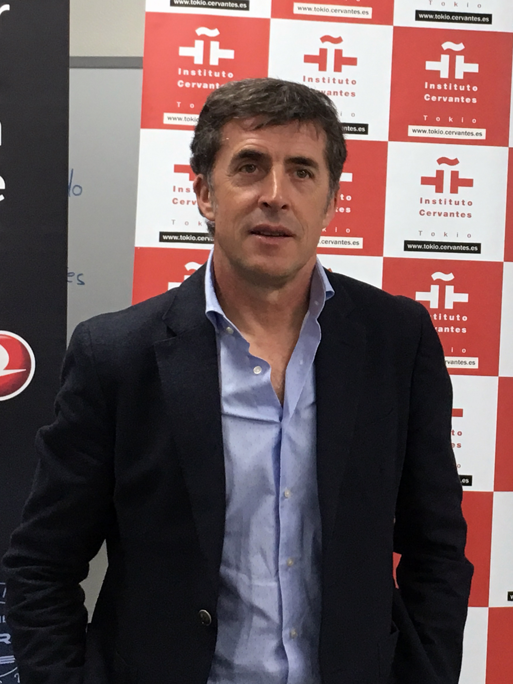 Pedro Delgado ペドロ・デルガド